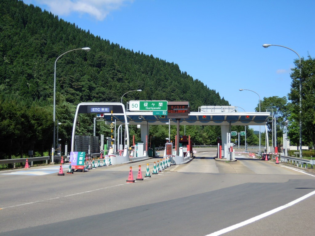 This Interchange, Ikarigaseki Interchange, is on Tohoku Expressway, in Hirakawa City, Aomori Prefecture, Japan.